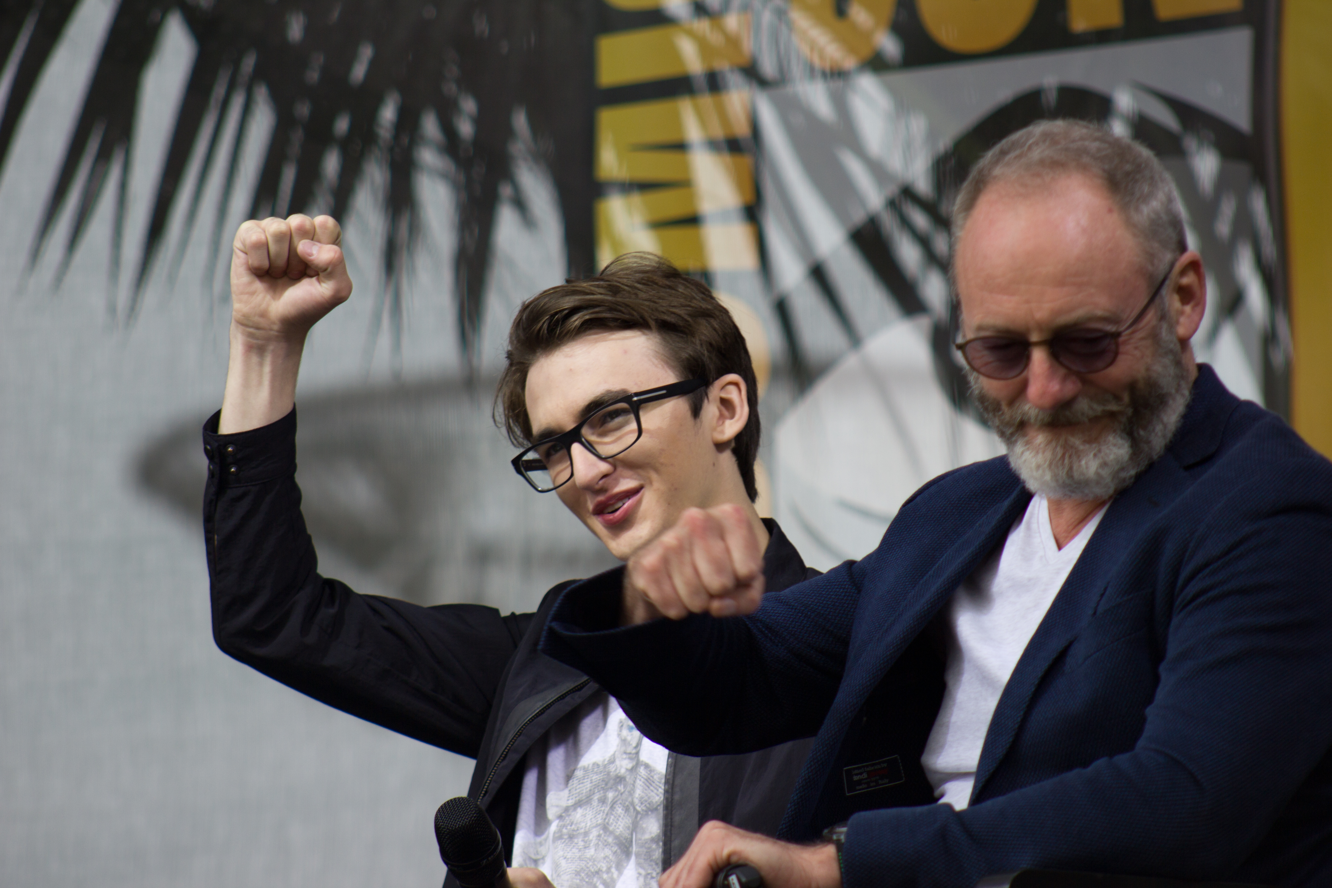 Game of Thrones @ Comic-Con HQ